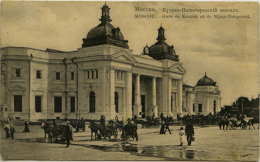 pre-revolutionaty russian postcard of Kursky Rail Terminal